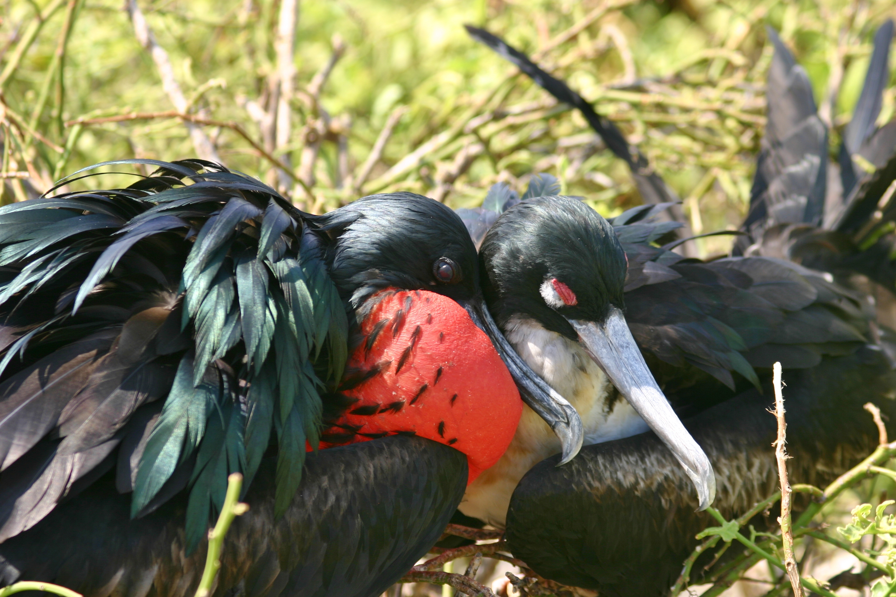 Great frigatebird (Fregata minor) breeding pair, Genovesa Island (El Barranco), Galapagos Islands.